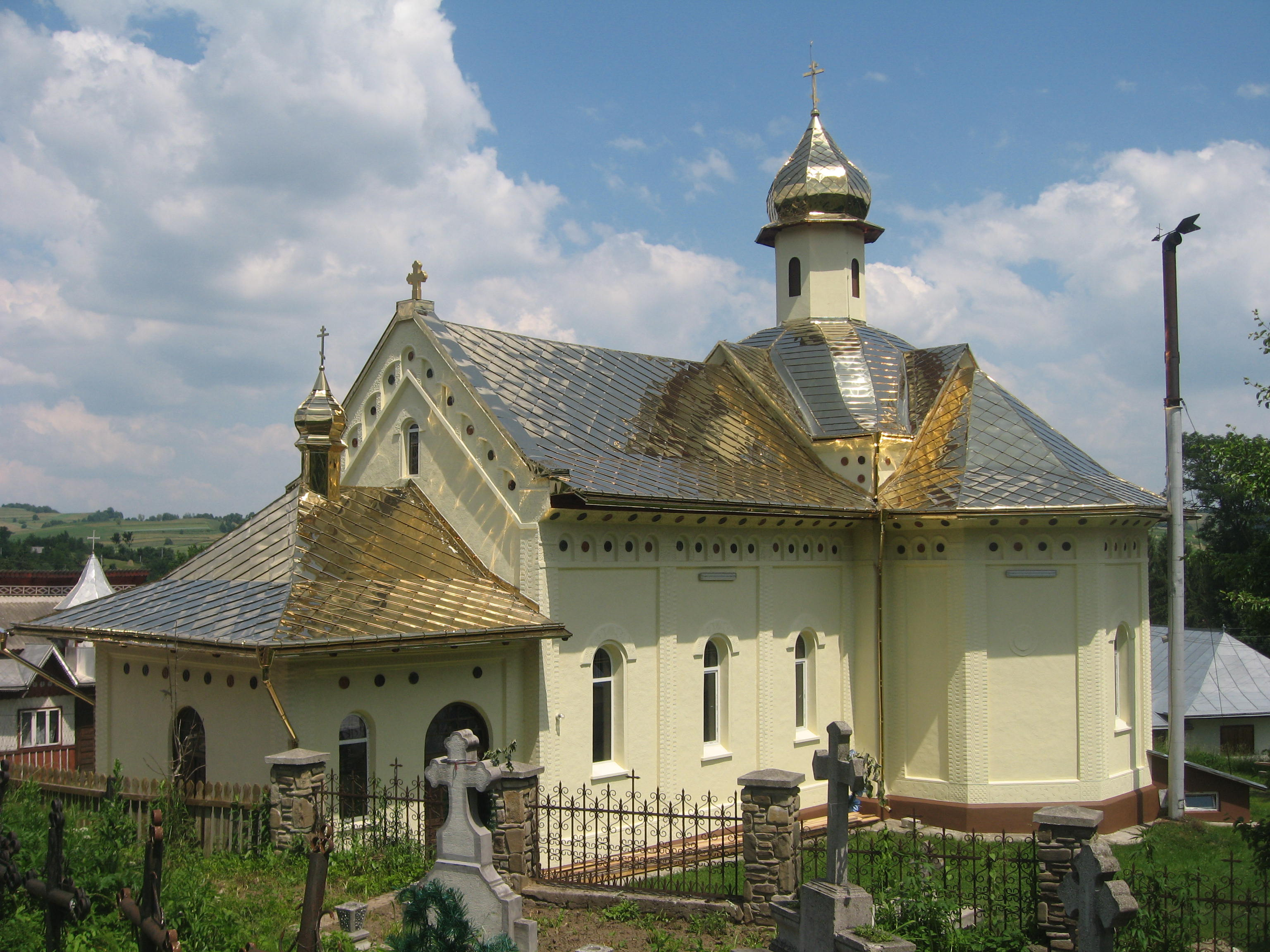 St. Nicholas Church in Partestii de Jos, Suceava County, Romania